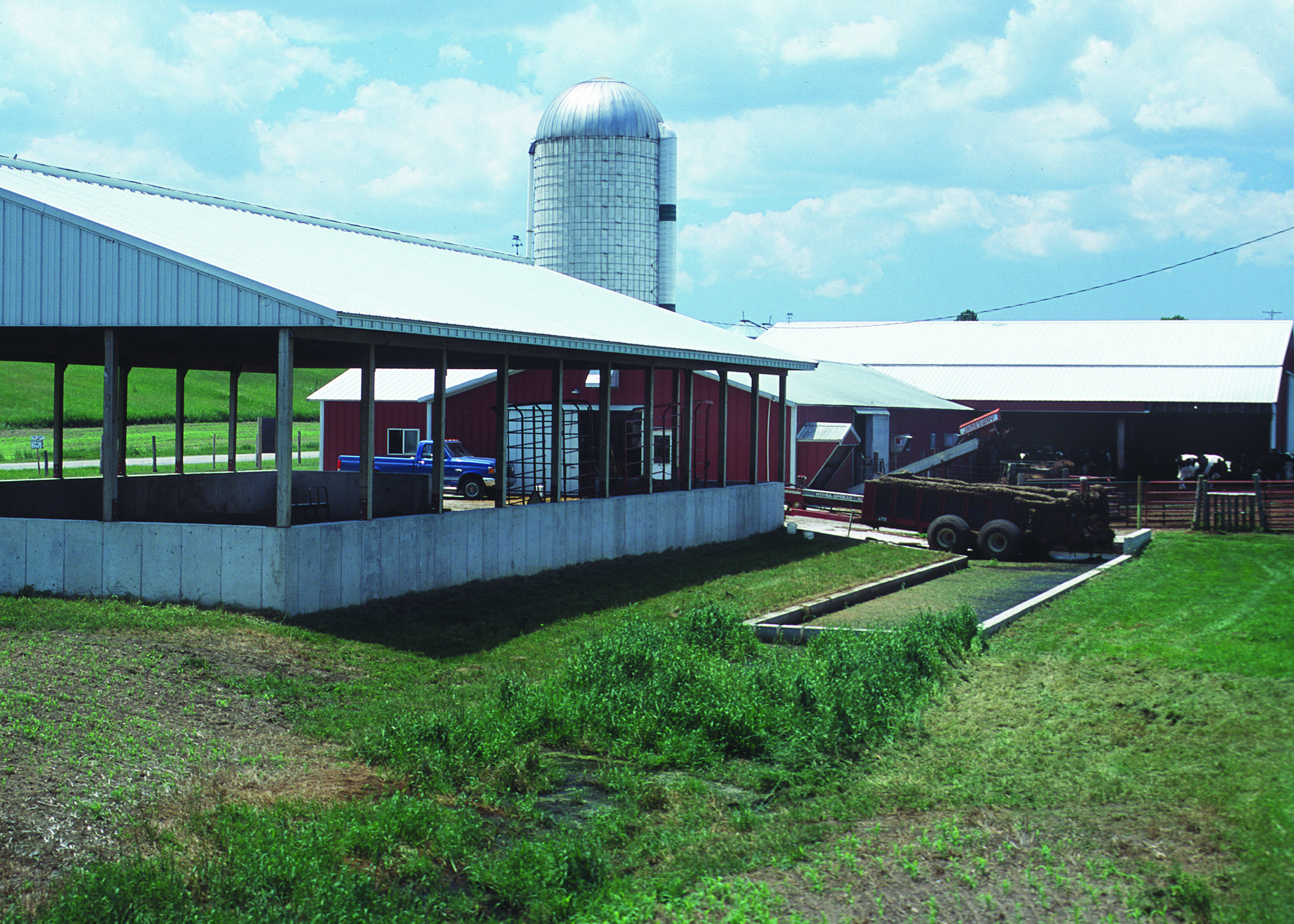 Roofed and concrete wall solid manure stacking facility with settling basin and filter strip. Grand Traverse County, Michigan.